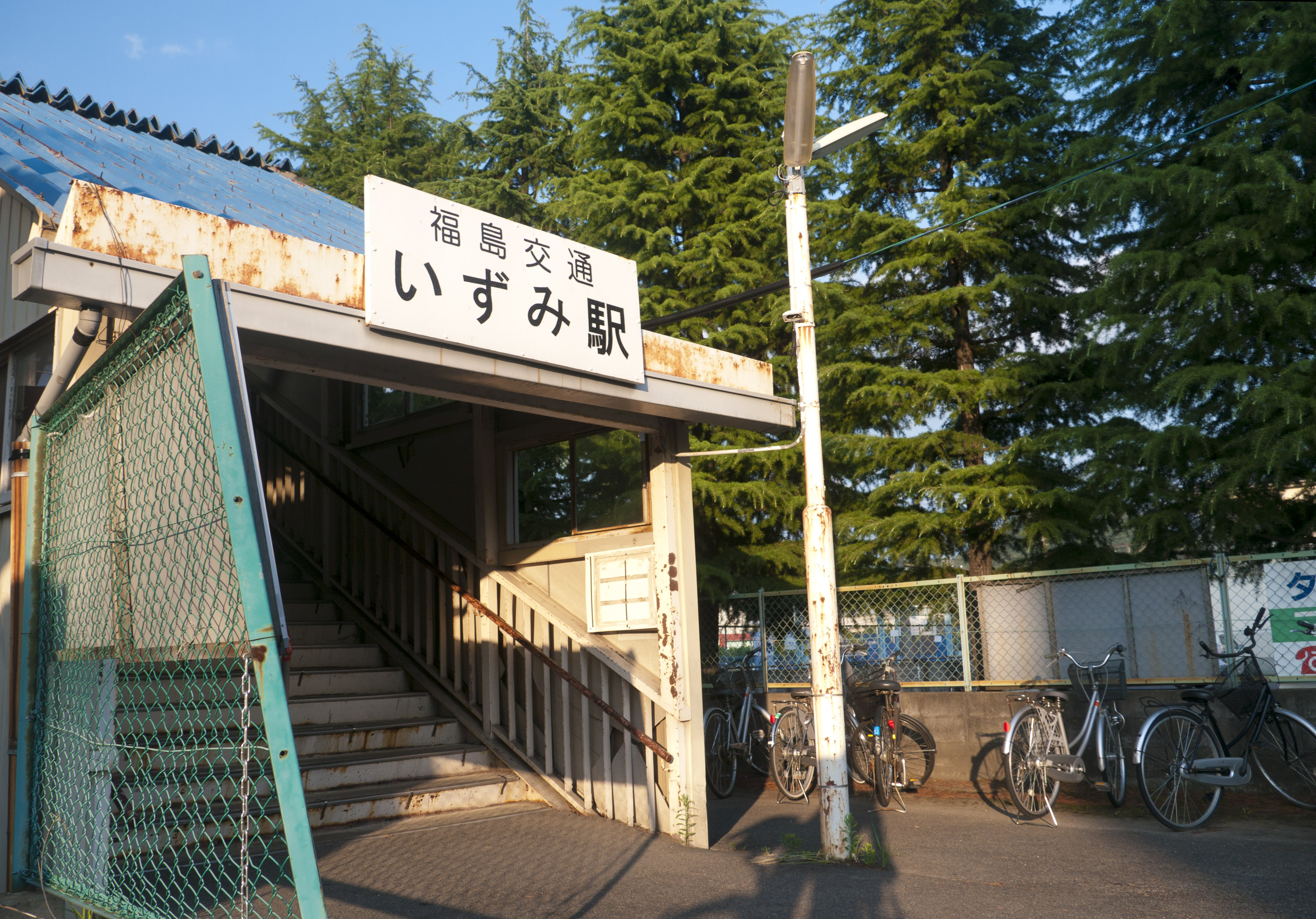 Fukushima Kotsu Iizaka Line Izumi west exit in Fukushima, Fukushima, Japan